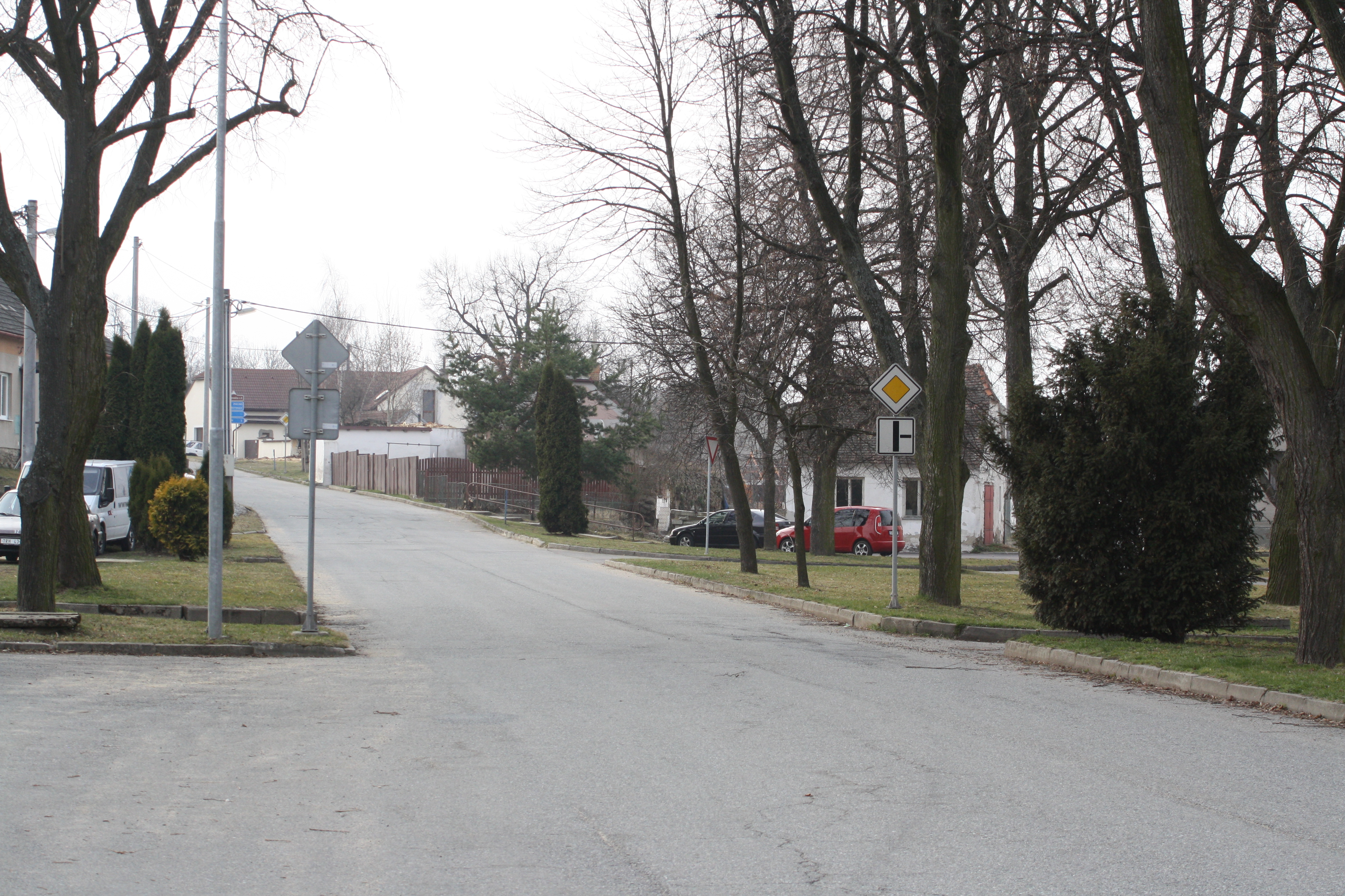 Center of Lipník.